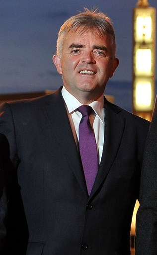 Jonathan Bell, DUP Politician